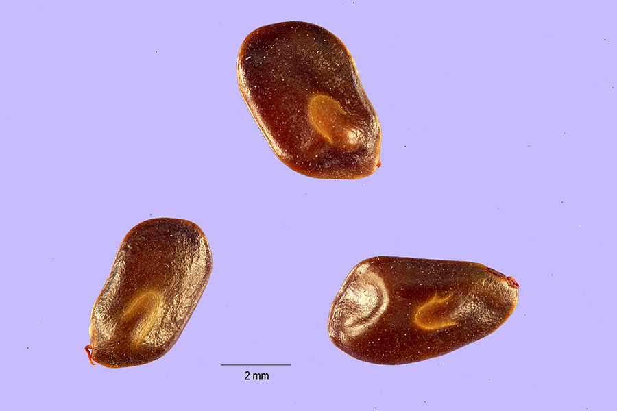 Seeds of Mimosa aculeaticarpa